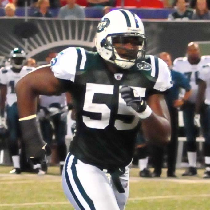 Jamaal Westerman during a game between the New York Jets and the Philadelphia Eagles in September 2009. This file has been extracted from another file: Michael Vick running Jets-v-Eagles, Sep 2009 - 53.jpg